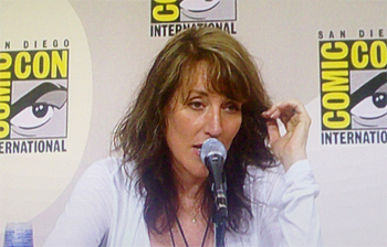 Shrunken version of Katey Sagal at the 2008 Comic Con in San Diego, California, on a panel for Futurama.